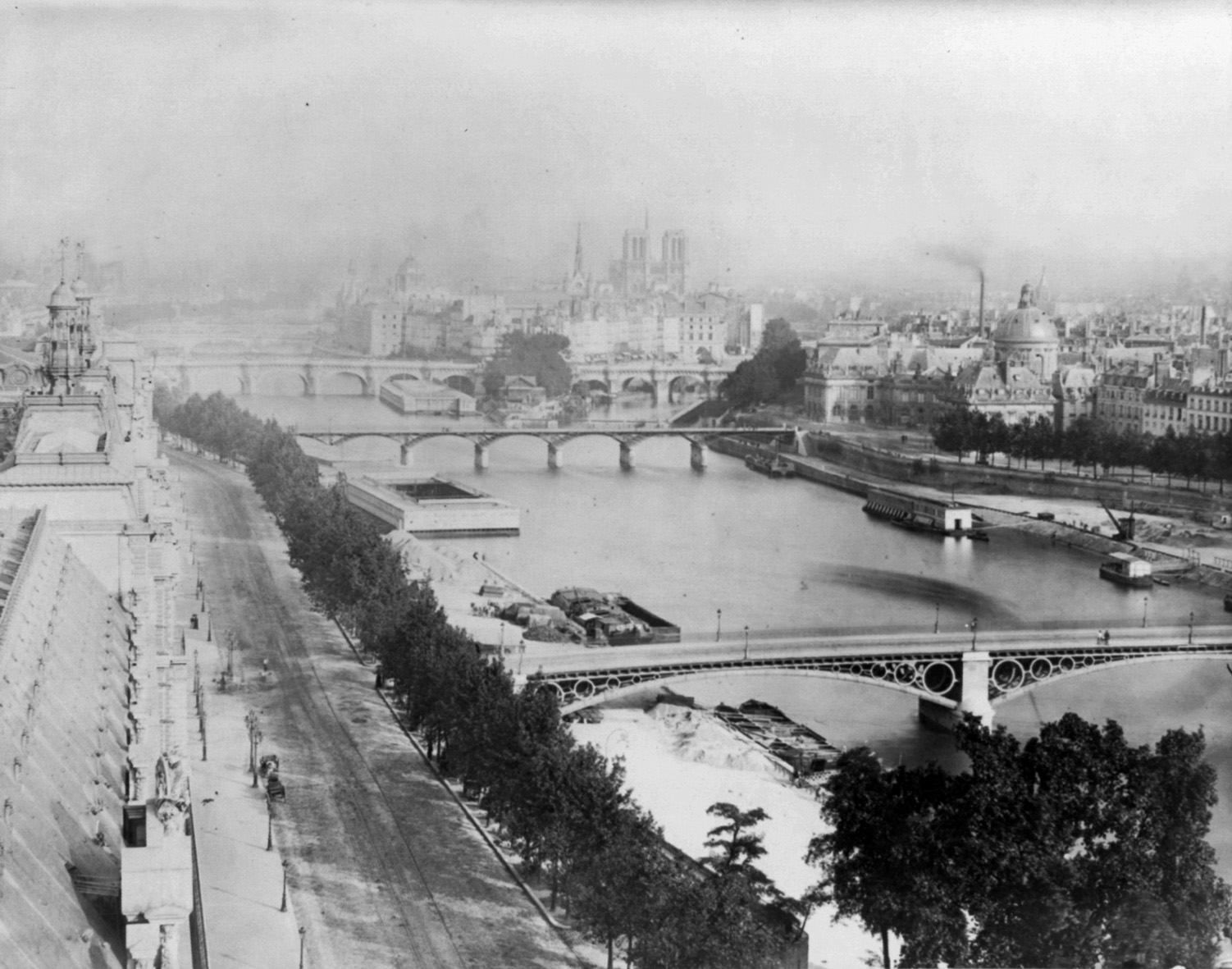 Grand Balloon de Mr. Henri Giffard (aka Henry Gifford), low aerial view of Seine bridges from balloon above Louvre, Paris, France.